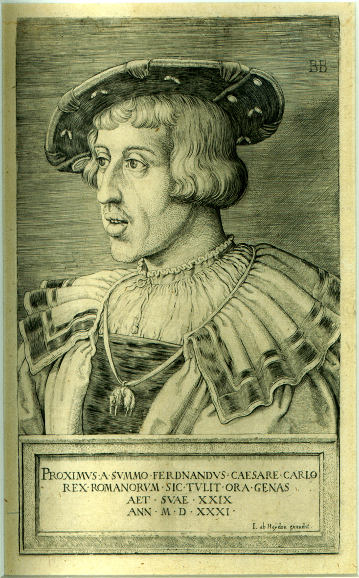 The Emperor Ferdinand, 1531